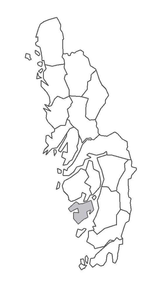 Map describing the location of Tjörn Hundred in Bohuslän Province, Sweden.